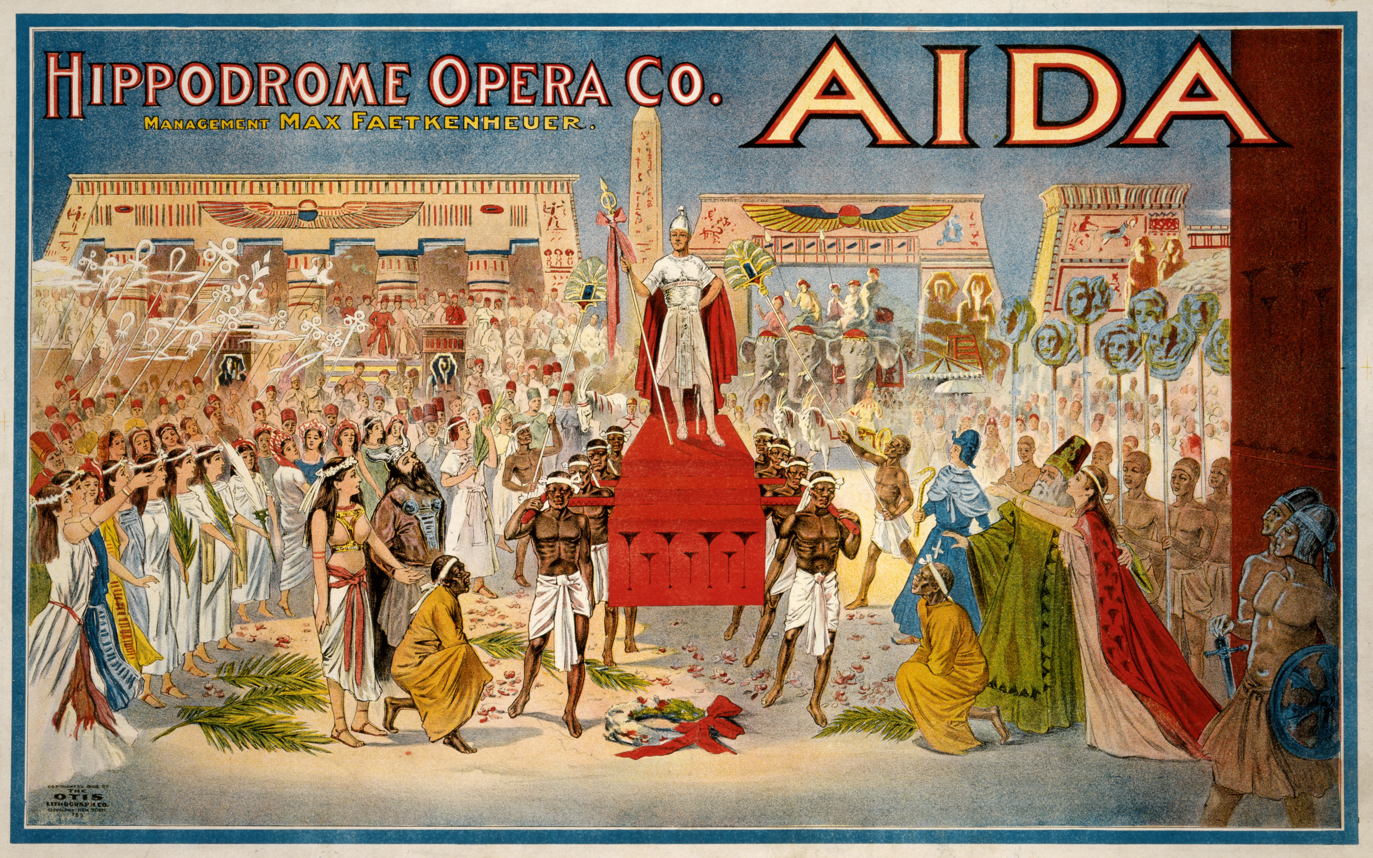 1908 poster for Giuseppe Verdi's Aida, performed by the Hippodrome Opera Company of Cleveland, Ohio.